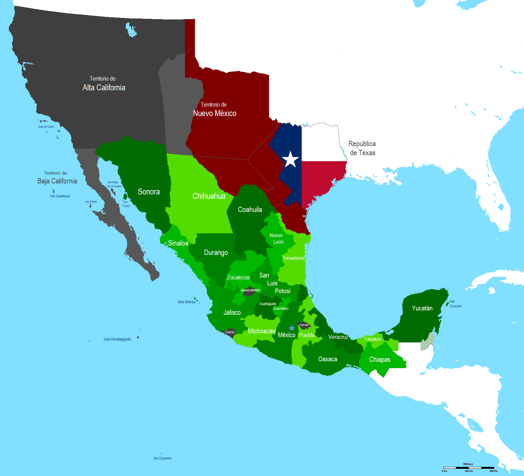 Map of Mexico in 1840 and without the republic of Rio Grande